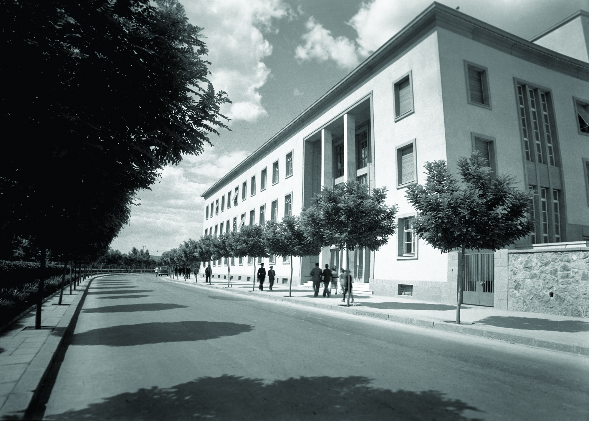 During the days when the photo was taken, Ankara Radio House used to do live broadcasting. Every Saturday, Radio Kids Club programme was broadcasted. Ankara Radio Station started broadcasting at the basement floor of Ankara Palas in 1927. After moving several times, it finally settled in its final destination at the Atatürk Boulevard since October 28, 1938. İstanbul and Ankara radio stations were managed through the Radio Department under the Directorate General of Press. General Director Vedat Nedim Tör was a man of culture. Mesut Cemil Tel was responsible for the music broadcasts at the radio. Muzaffer Sarısözen was managing the Choir of Voices from Homeland (Yurttan Sesler Korosu). Atatürk Bulvarı, Radyoevi, 1940’lı yıllar. Ankara Radyoevi’nde canlı yayın yapılıyordu o yıllarda, fotoğrafın çekildiği 1940’larda. Her cumartesi günü Radyo Çocuk Kulübü’nden yayını yapılırdı. Ankara Radyosu, Ankara Palas’ın bodrum katında 1927’de yayına başlamış. Birkaç yer değiştirdikten sonra 28 Ekim 1938’de itibaren Atatürk Bulvarı üzerindeki son durağında. İstanbul ve Ankara radyoları, Matbuat Umum Müdürlüğü’ne bağlı Radyo Dairesi’nden yönetiliyor. Umum Müdür bir kültür adamı, Vedat Nedim Tör. Radyo’da müzik yayınları Mesut Cemil Tel’den soruluyor. Yurttan Sesler Korosu’nu Muzaffer Sarısözen çalıştırıyor.